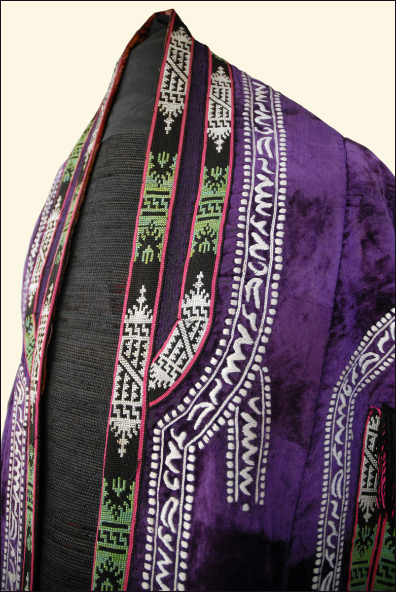 Parandja, a robe that was women's wear, detail. Displayed at the Museum of Applied Arts in Tashkent, Uzbekistan. Early 20th century. Velvet, silk threads and handmade embroidery. The robe almost completely covered the wearer. The Soviets banned the parandja in 1927 in an effort to stop Islamic customs. Nonetheless, it took many more years for the parandja to completely disappear.